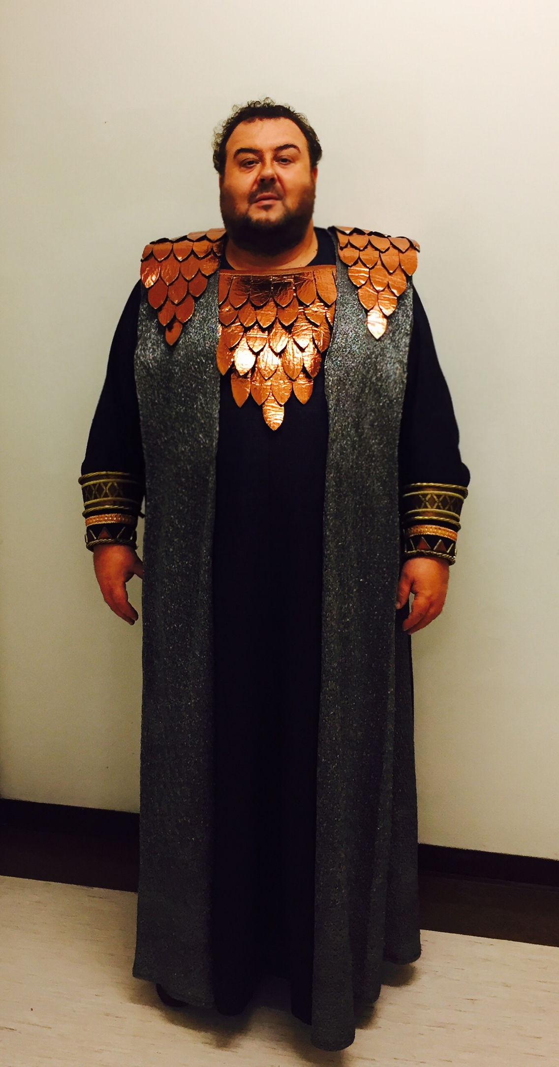 Italian tenor Fabio Sartori as Radamès in Aida at the Teatro alla Scala in 2015